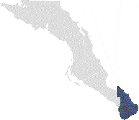 Map of the Second Federal Electoral District of the State of Baja California Sur, México.